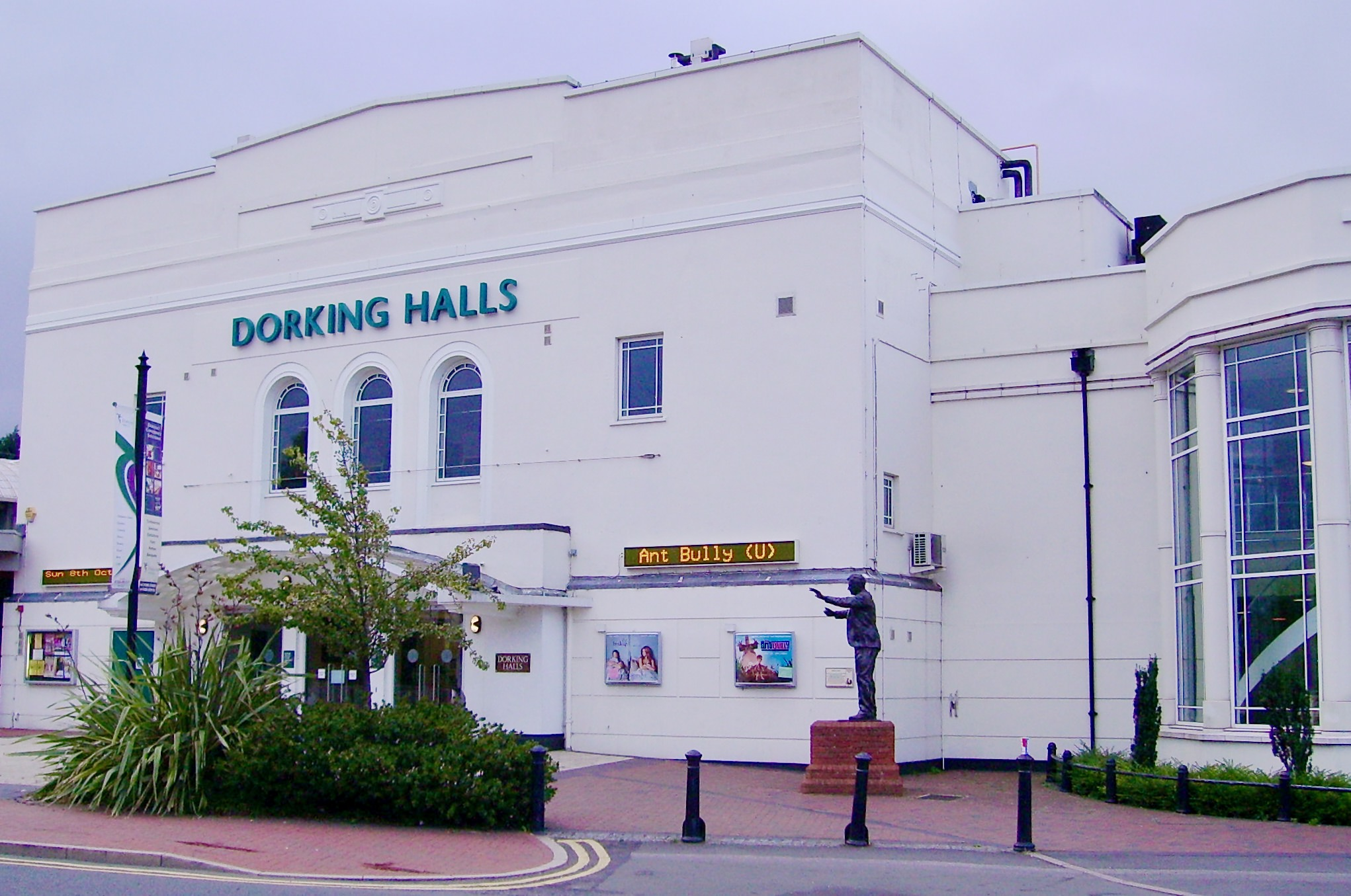 view of Dorking in Surrey, United Kingdom